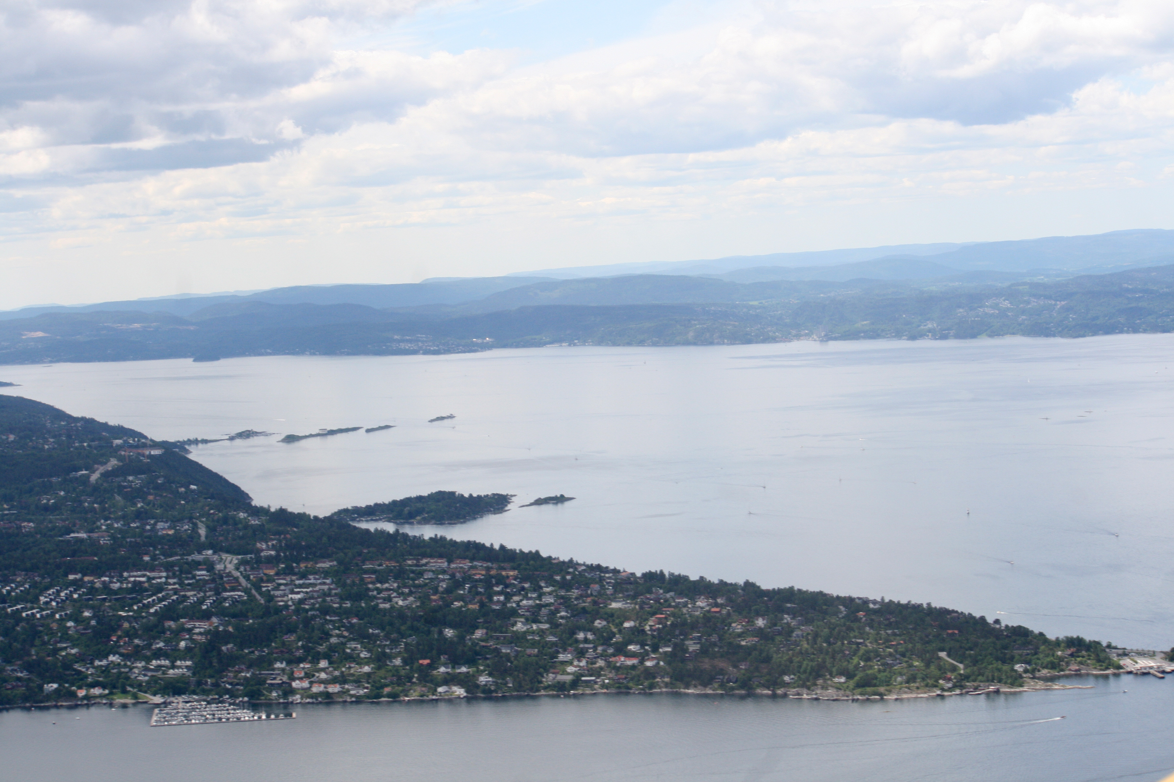 Aerial photograph from June 14th, 2015. Nesoddtangen in the Oslo fjord.